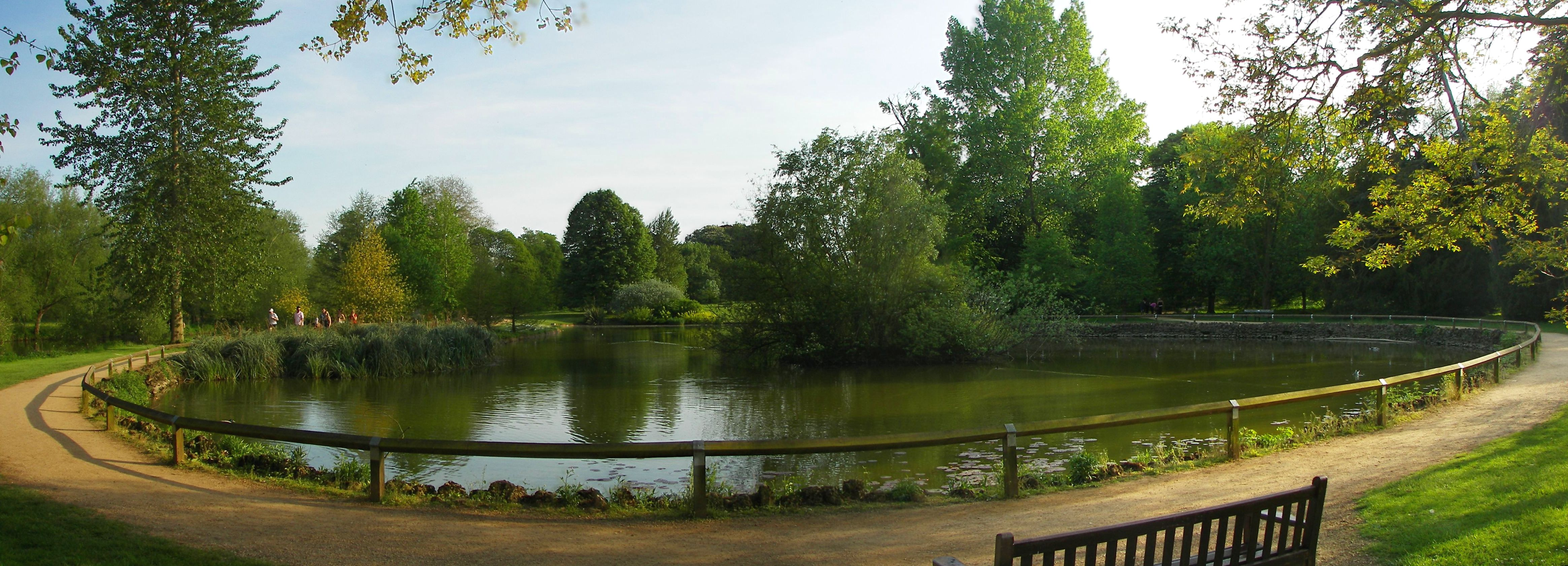 Photo of the duck pond at the northeast corner of the University Parks in Oxford. This image is a stitching of three separate photos, using Autostitch.